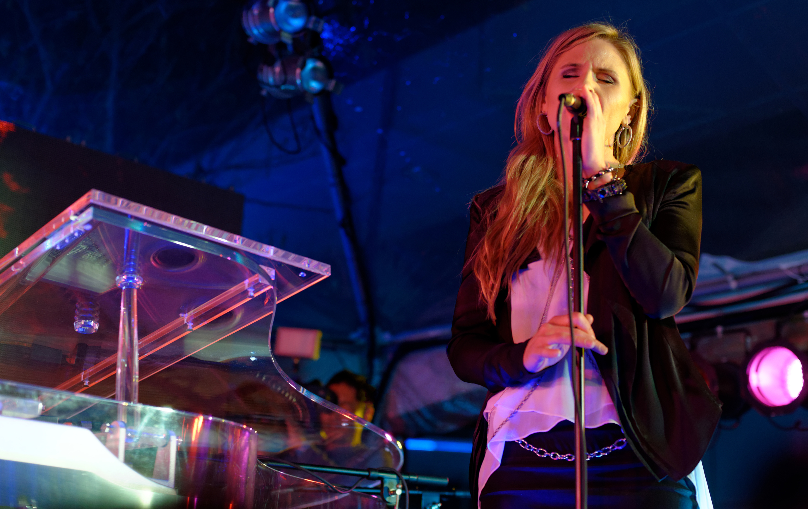 Shot using a Nikon D610 with NIKKOR 85mm f/1.8G and 50mm f/1.4D lenses.